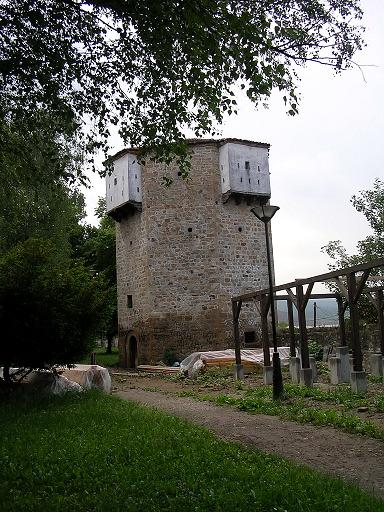 15th century Ottoman fortress in Novi Pazar